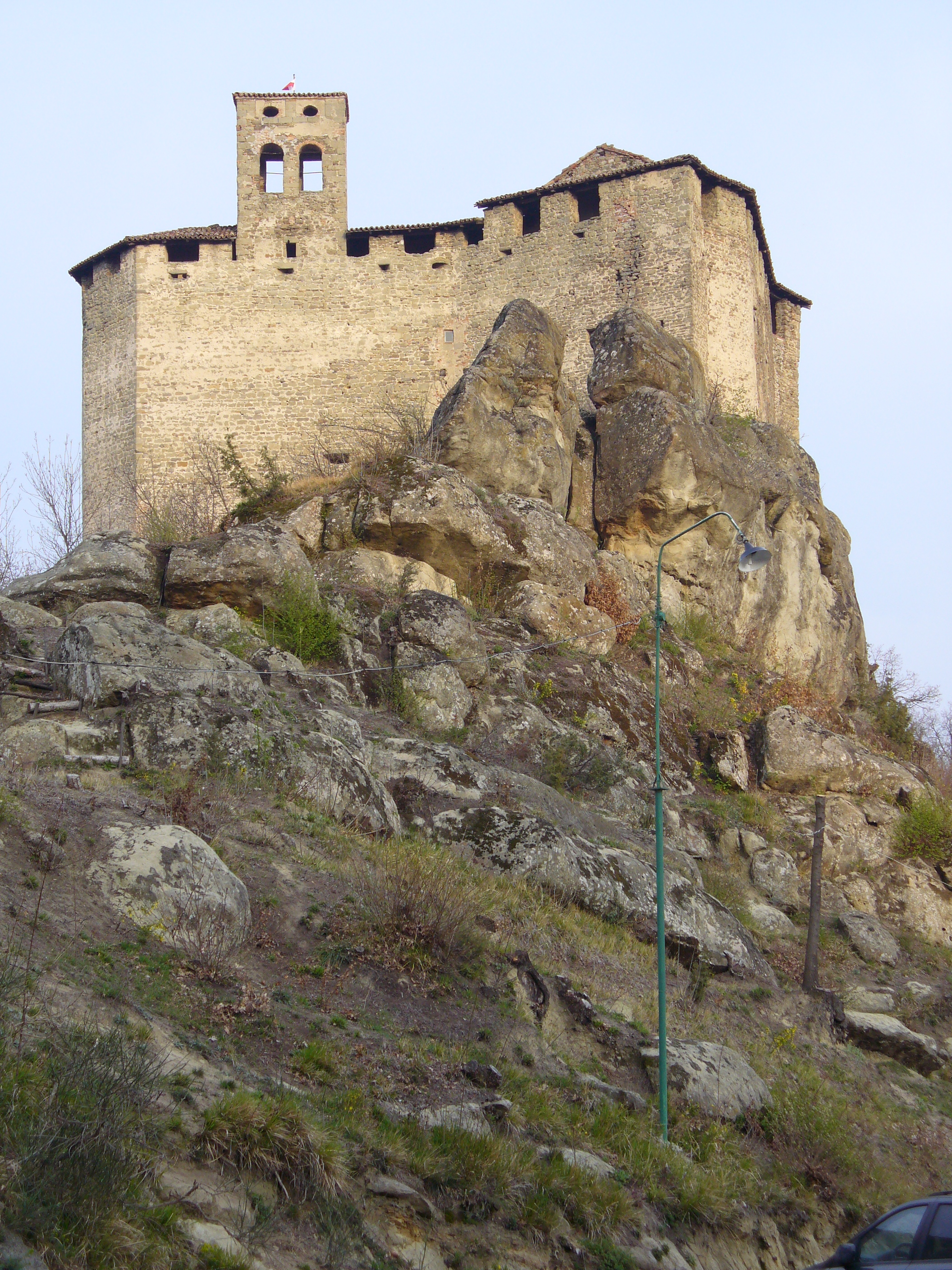 The Castle from the Parking